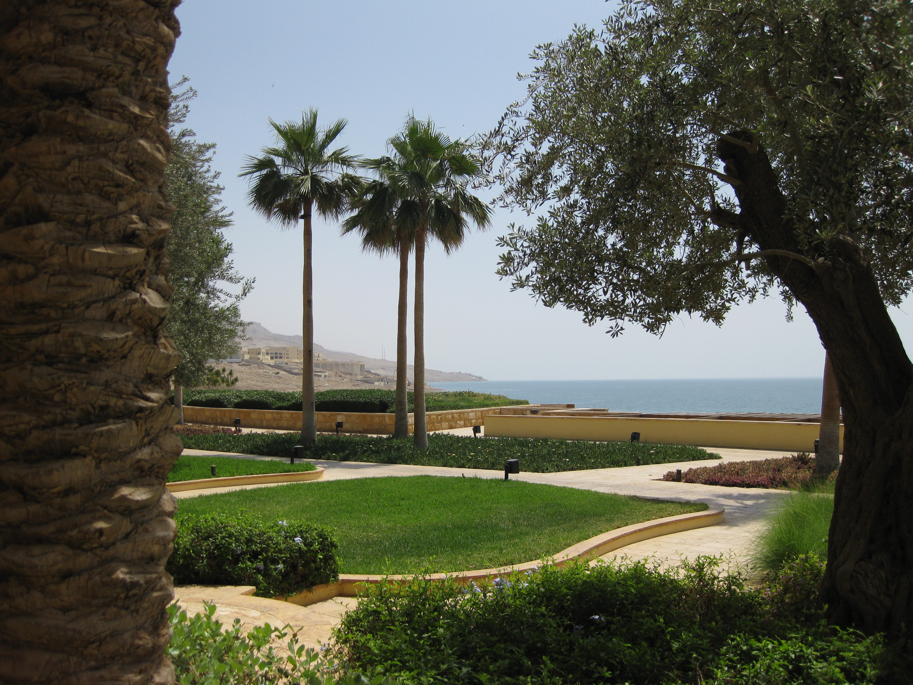 Dead Sea From the Kempinsky Hotel - Jordan.